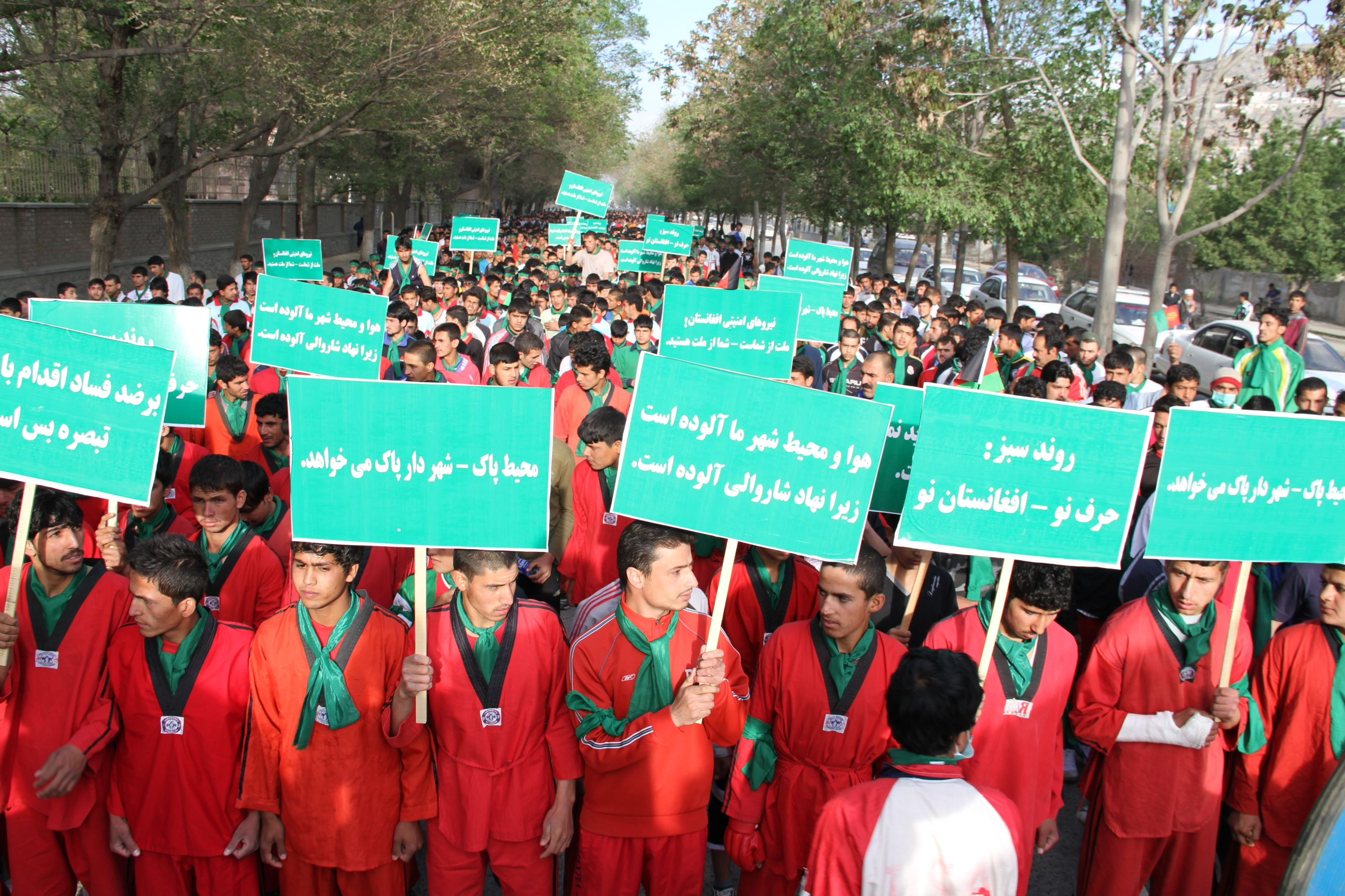 Afghan Green Trend organizes a large youth rally in Kabul to denounce corruption